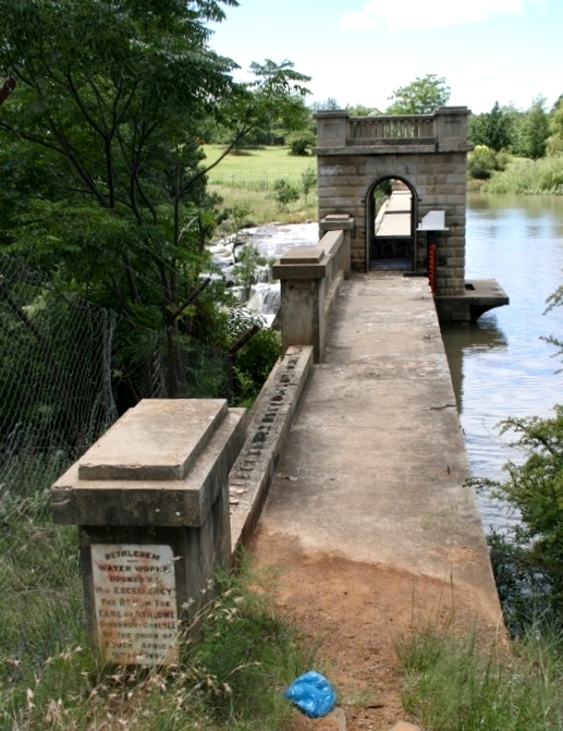 'n Damwall in Bethlehem, probably Loch Athlone's.